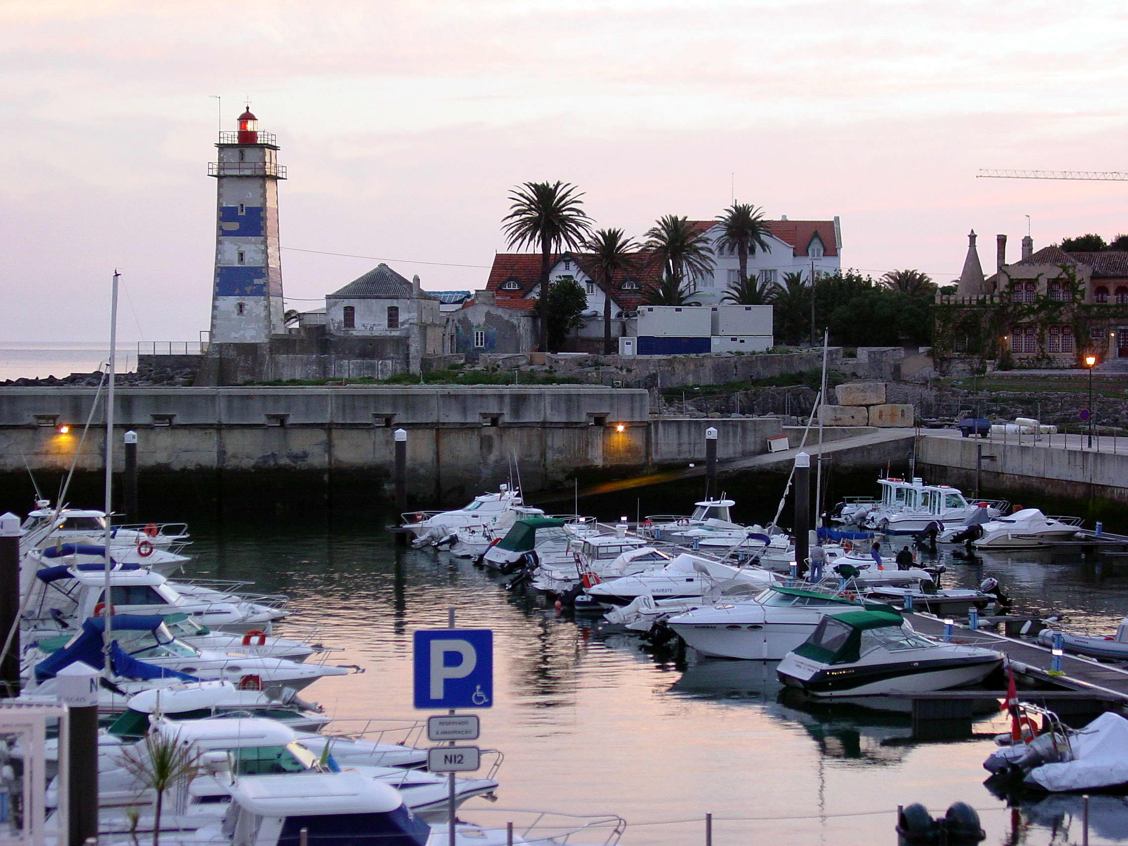 Cascais is a coastal village of Portugal.